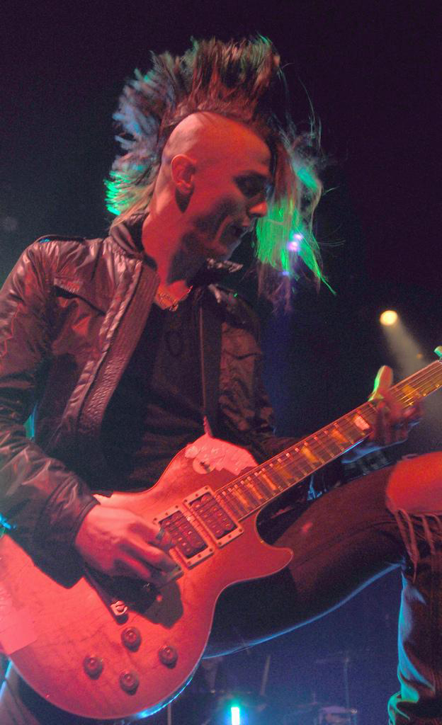 Icon for Hire guitarist Shawn Jump performing with the band in Overland Park, KS in 2011.